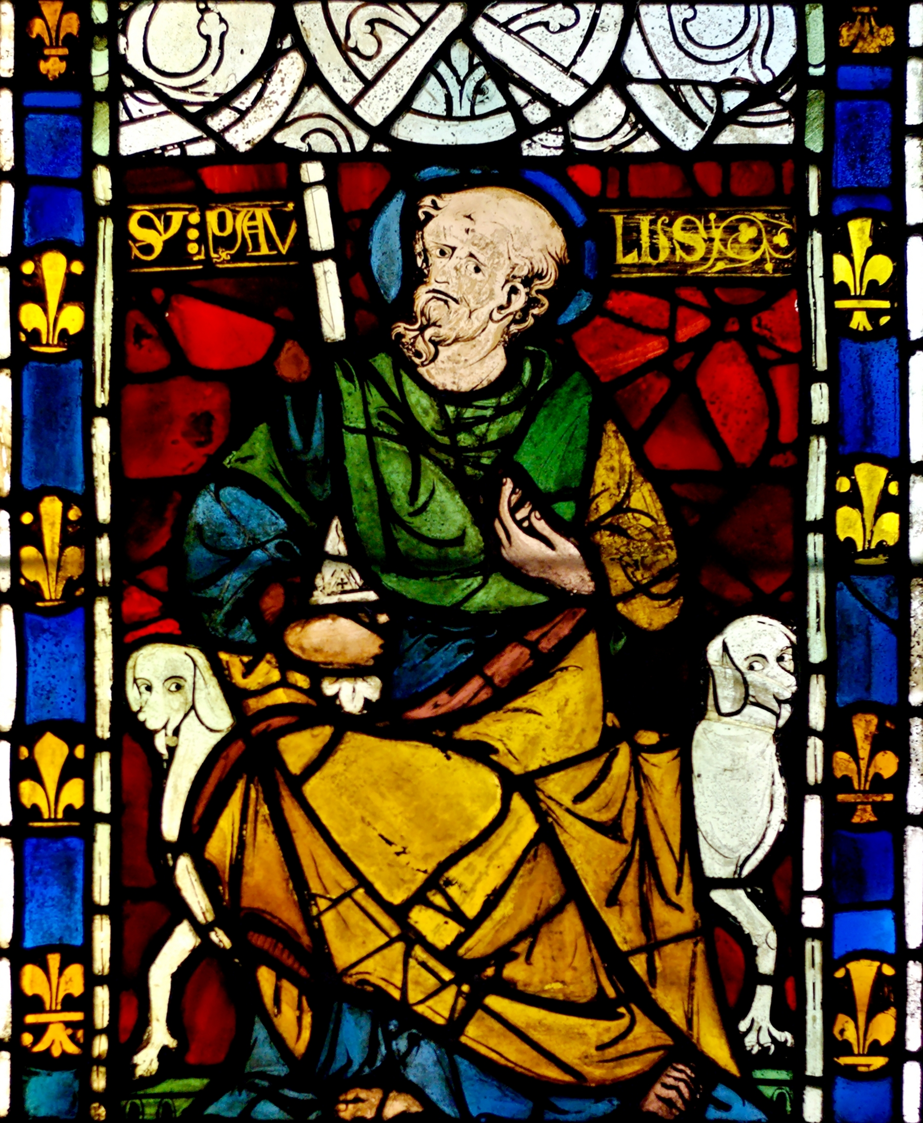 St Paul. Stained glass (white and coloured glass, grisaille painting, lead), Normandy, ca. 1260. From the chapel of the royal castle of Rouen.